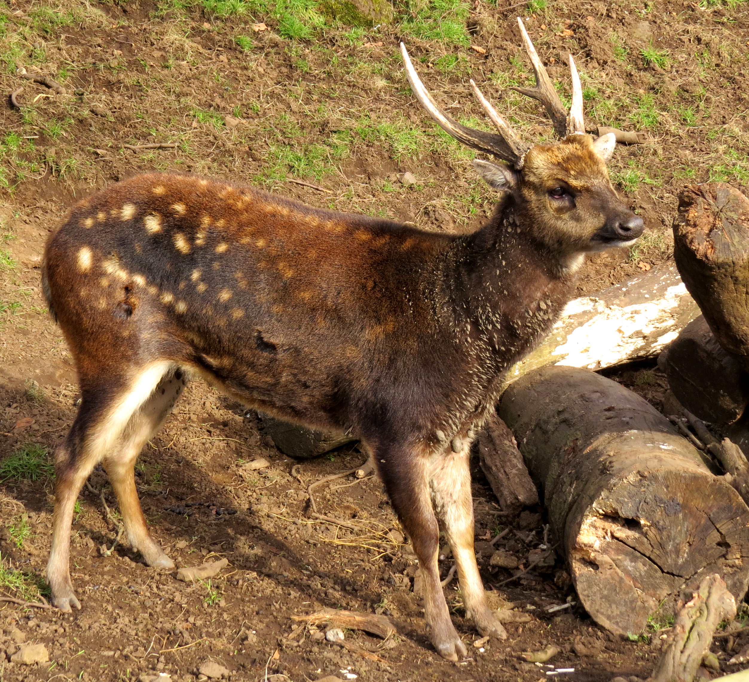 Visayan spotted deer (Rusa alfredi), Royal Edinburgh Zoo, Edinburgh, Scotland